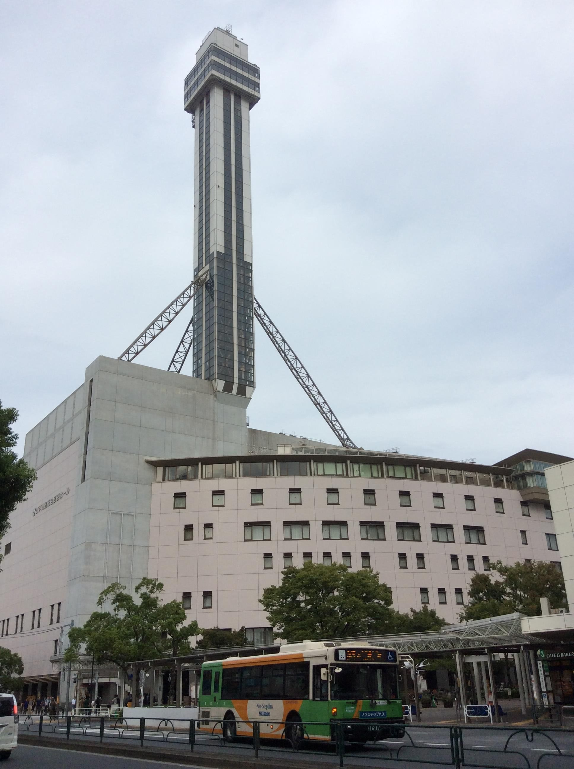 Tower Hall Funabori